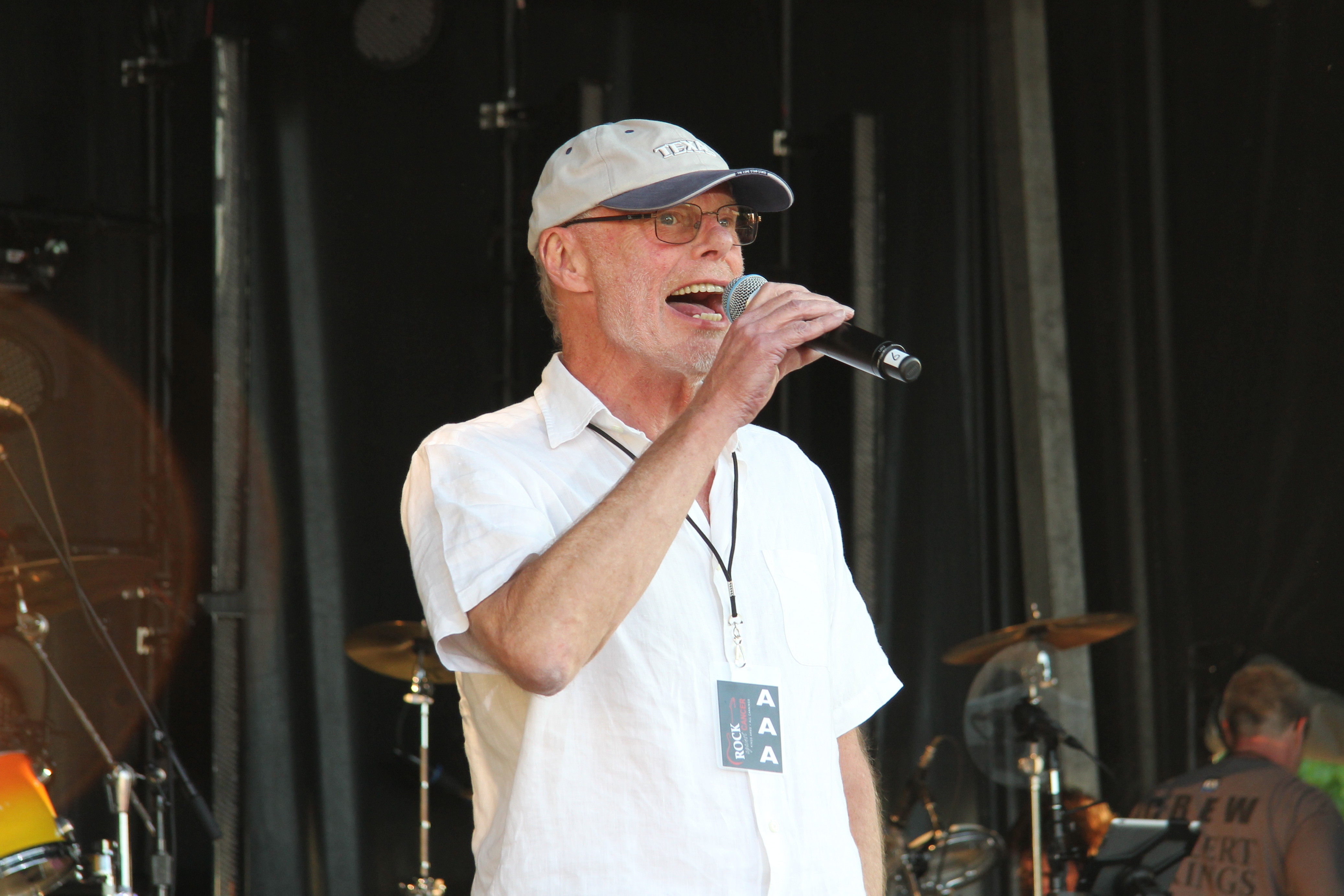 Bob Harris on May 26th at the Concert@theKings in Wiltshire and the Kings.